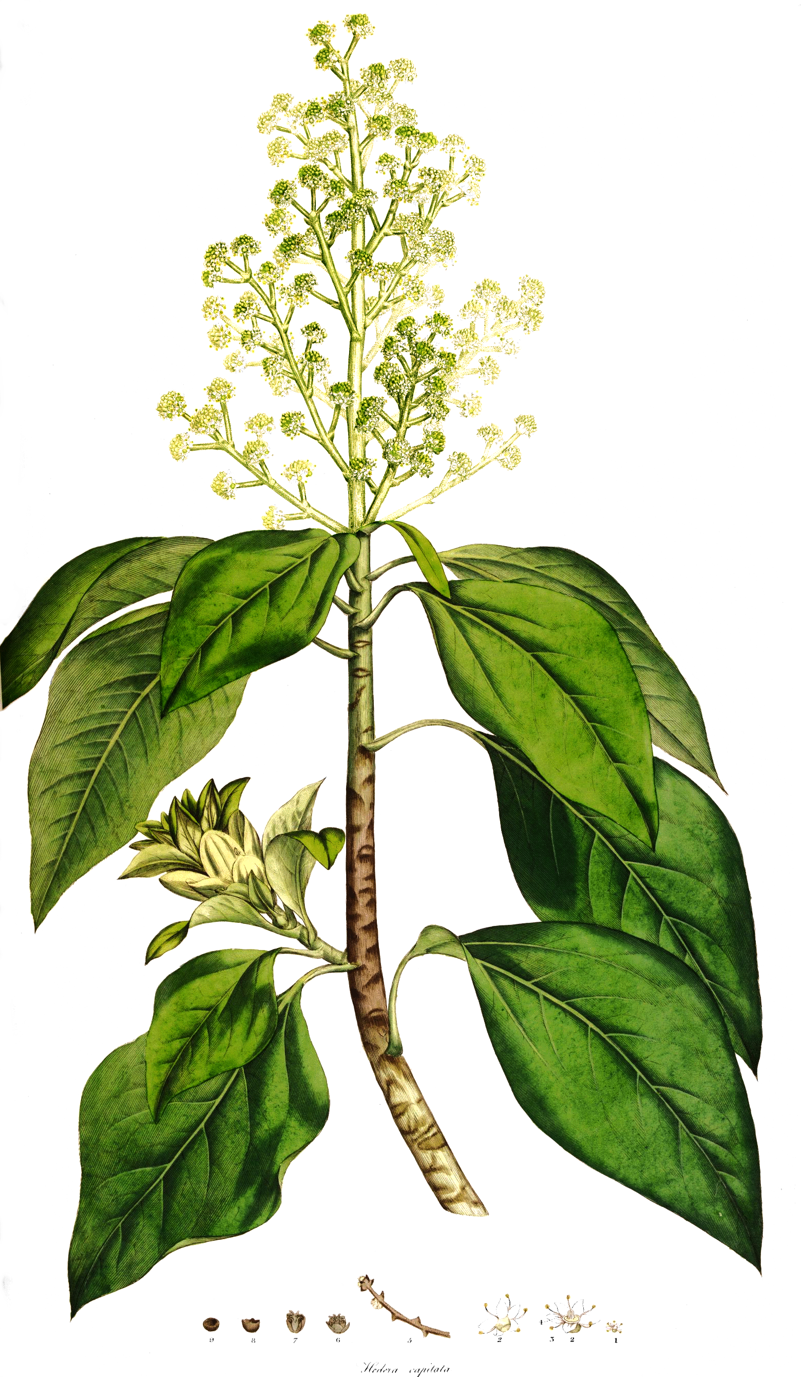 Plate from book